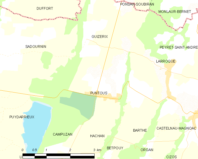 Map of French municipality